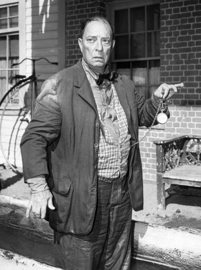 Photo of Buster Keaton from the television program The Twilight Zone. In this episode, "Once Upon a Time", Keaton played a man who was able to travel back and forth in time with a magical helmet. Keaton performed some of his scenes for the episode as a silent performer, as in his old film days.